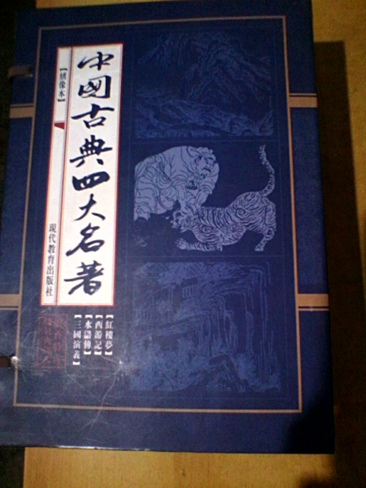 The Four Great Classical Novels of Chinese literature